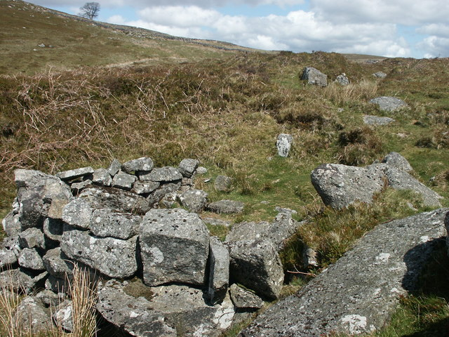 Ruin of Keble Martin Chapel, near Huntingdon Cross, Dartmoor, Devon. Early in the 20th century the Rev. Keble Martin used to visit here on camping trips with a group of friends. They built the chapel to use for worship. The chapel was used for the blessing of a wedding in 1990, and a child was baptised in the adjacent house soon after the chapel was built. A small incised cross can be seen on the single stone centre/right.